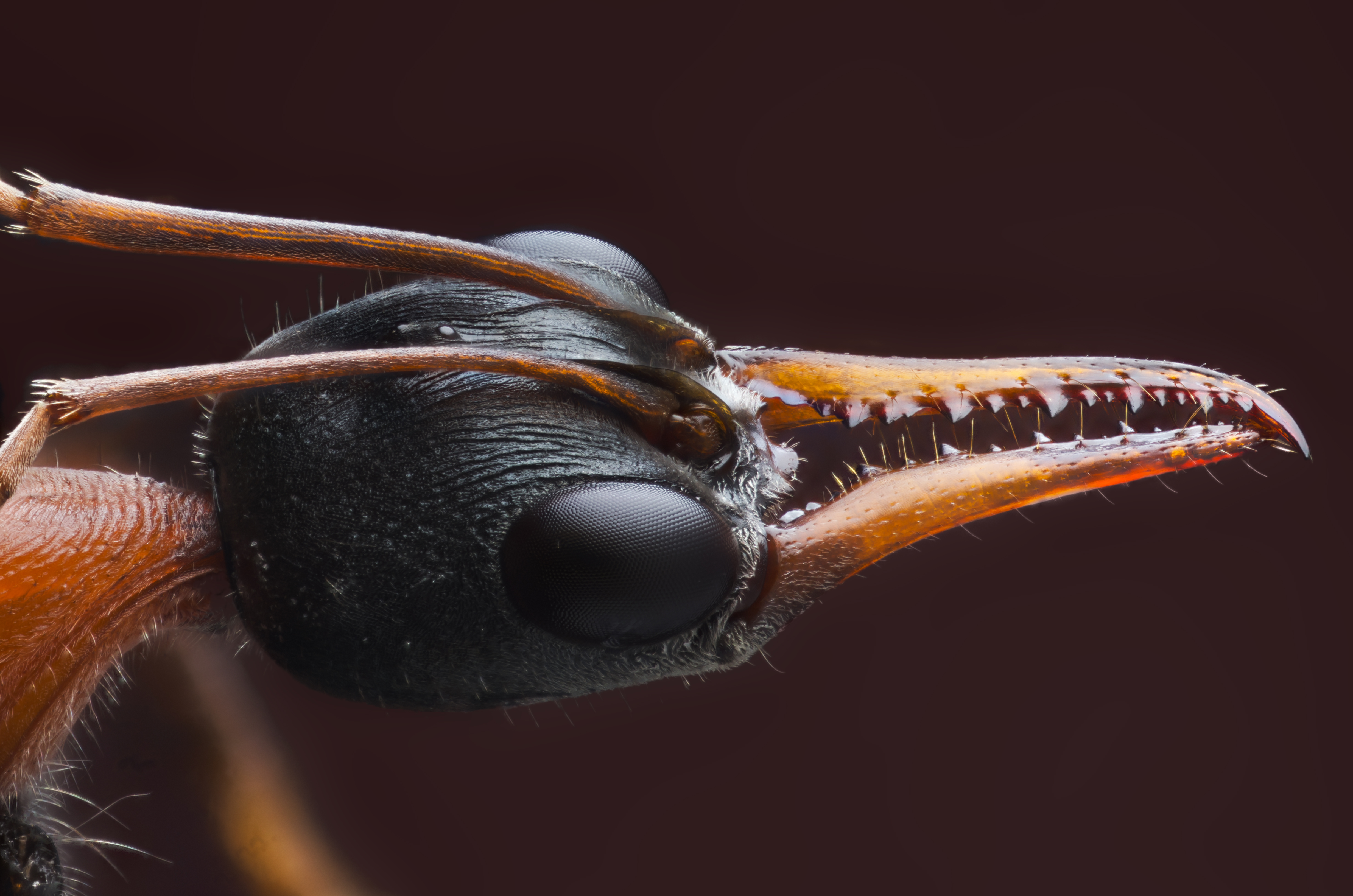 Focus-stacked image showing head detail of a bull ant. Note the powerful mandibles and large eyes. Specimen collected from Garigal National Park, Sydney NSW Australia.